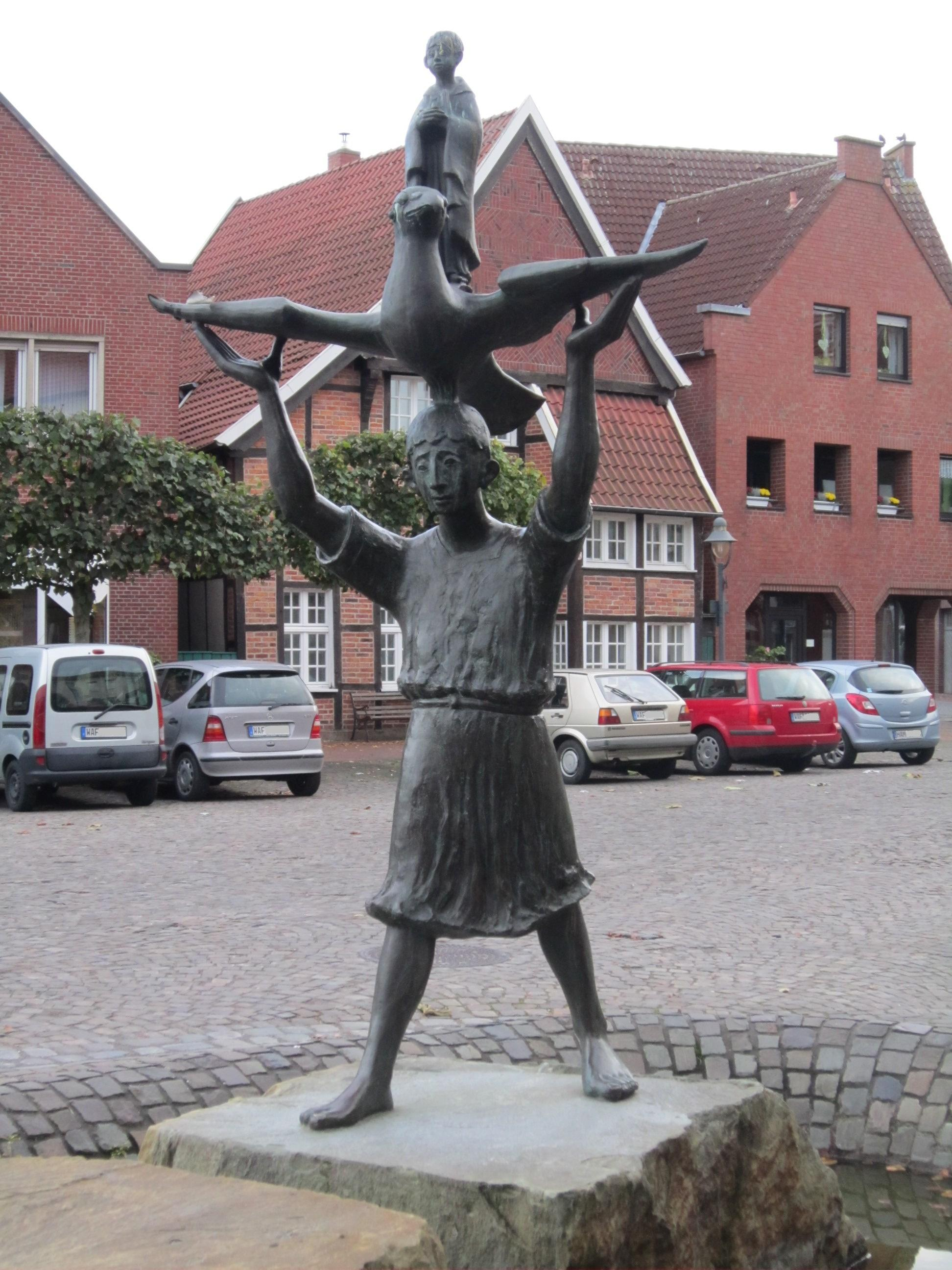 Sculpture showing Walbraht, grandson of the Saxon duke Widukind, and St. Alexander in Drensteinfurt